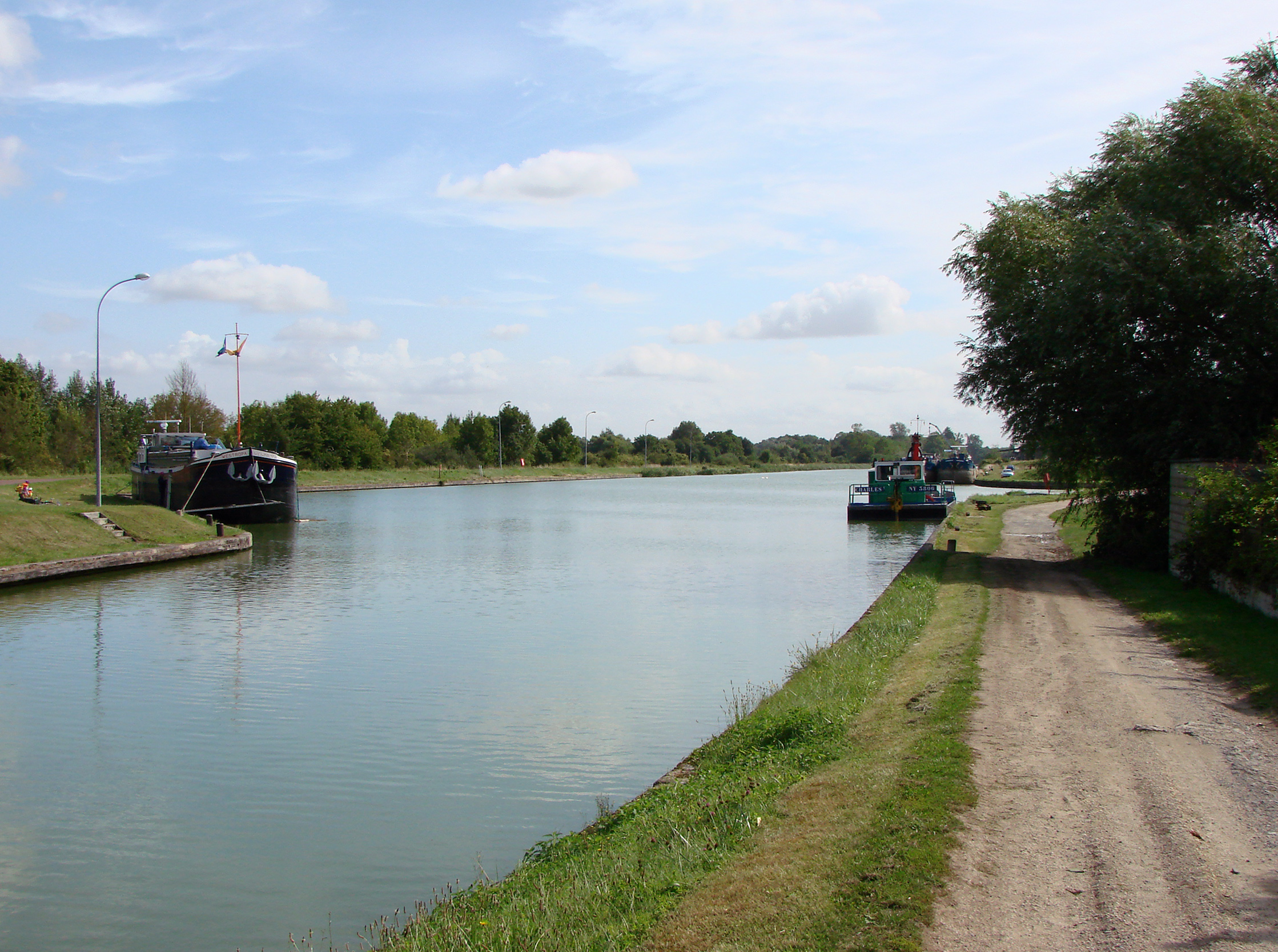 The Canal latéral à l'Aisne in Berry-au-Bac, near the canal lock.